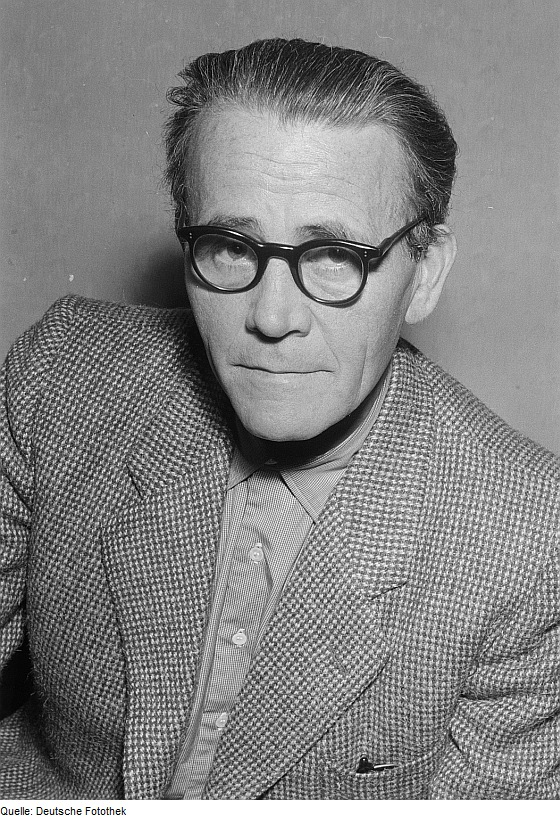 Original image description from the Deutsche Fotothek Portrait August Hilds